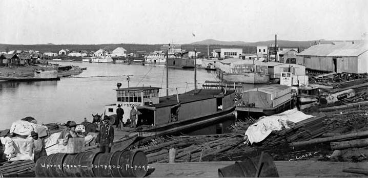 Port of Iditarod, circa 1911